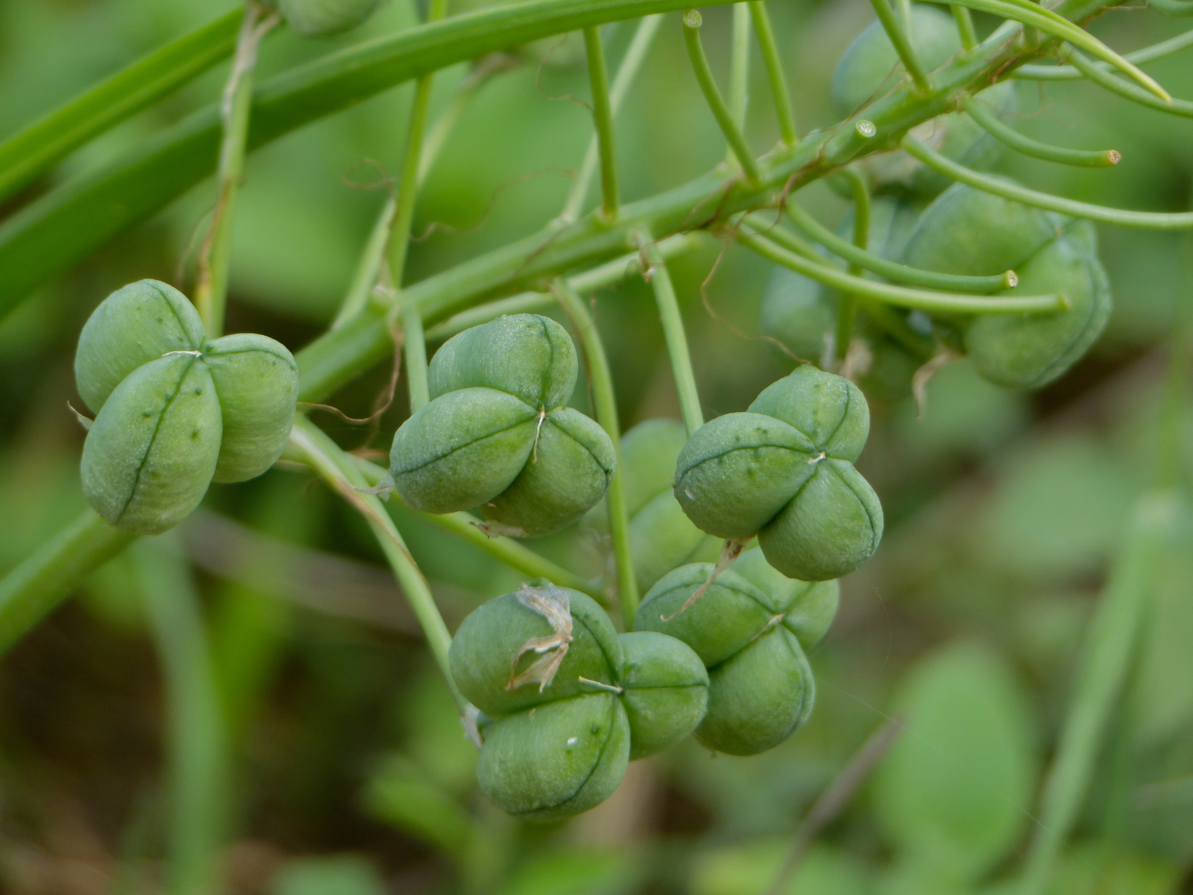 S30 Road, North of Lower Sabie, Kruger NP, SOUTH AFRICA